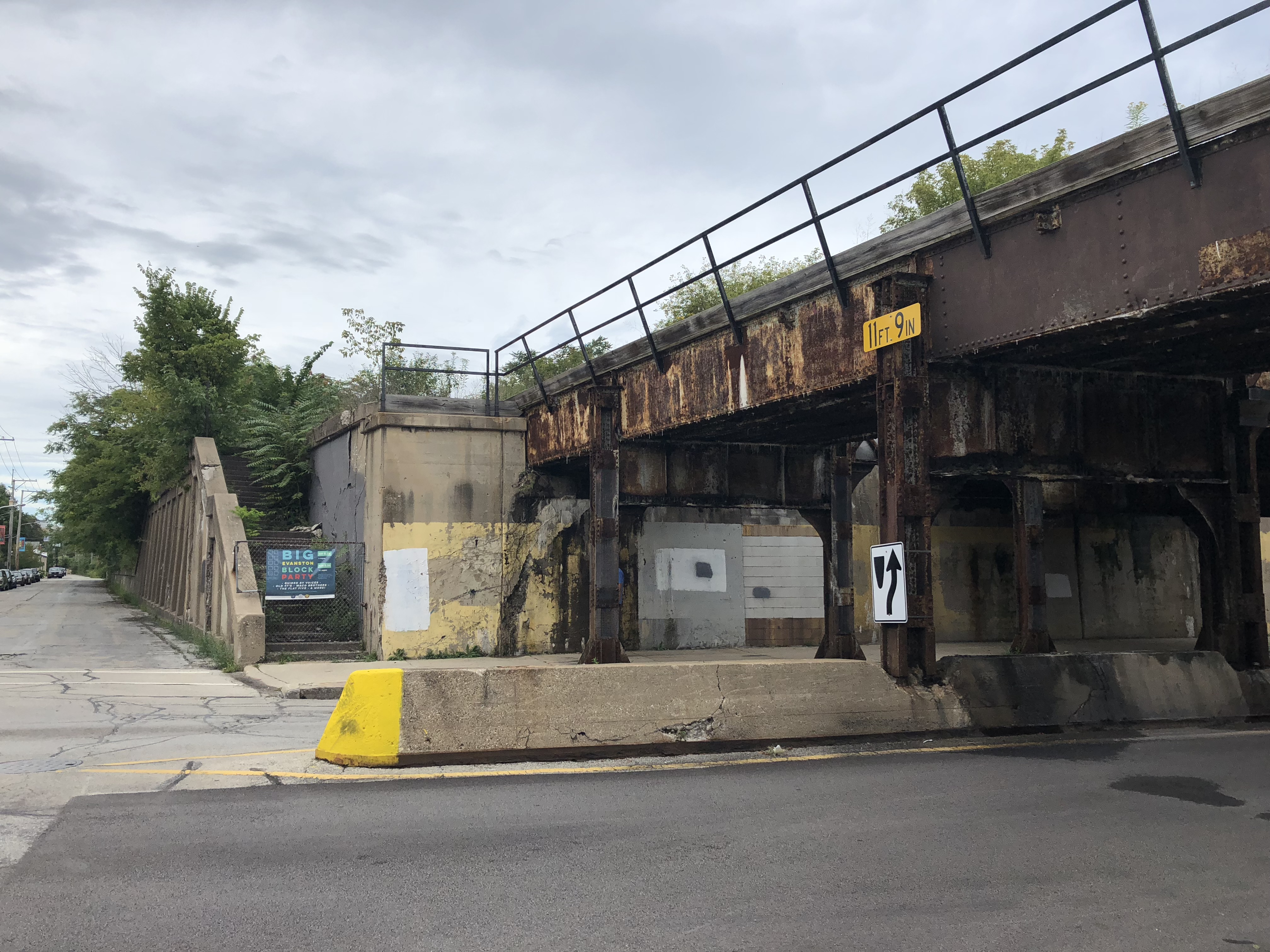 Staircase leading up to the abandoned northbound platform for the Dempster C&NW station in Evanston, IL on the Union Pacific / North Line. The viaduct in the foreground (now abandoned) formerly carried the line's third track through Evanston.